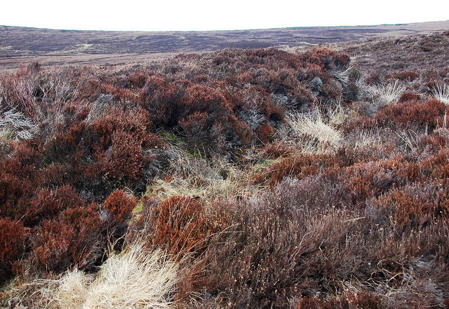 Heather moorland Traversing this was hard going. A mixture of wellie-sucking bog and ankle-grabbing heather tangles.